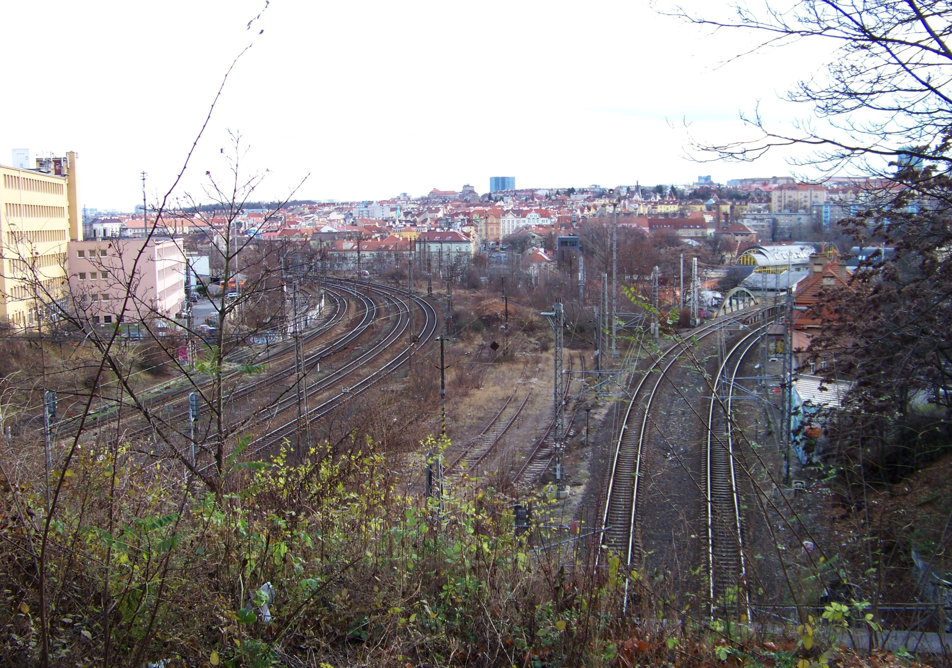 Prague-Vinohrady, the Czech Republic. Railway tracks from Vinohrady Tunnels, Nusle on the background.